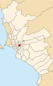 Map of Lima highlighting the San Luis district in Lima.